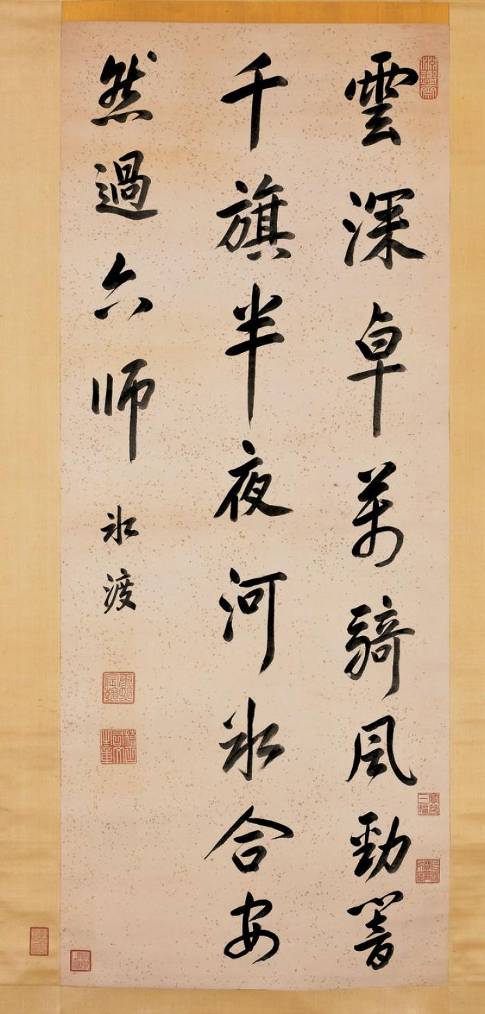 Crossing the Frozen River, a poem in running script, undated, by the Kangxi Emperor (1654—1722). Hanging scroll, ink on gold-flecked paper. 131.2×53.3 cm. The Palace Museum, Beijing.